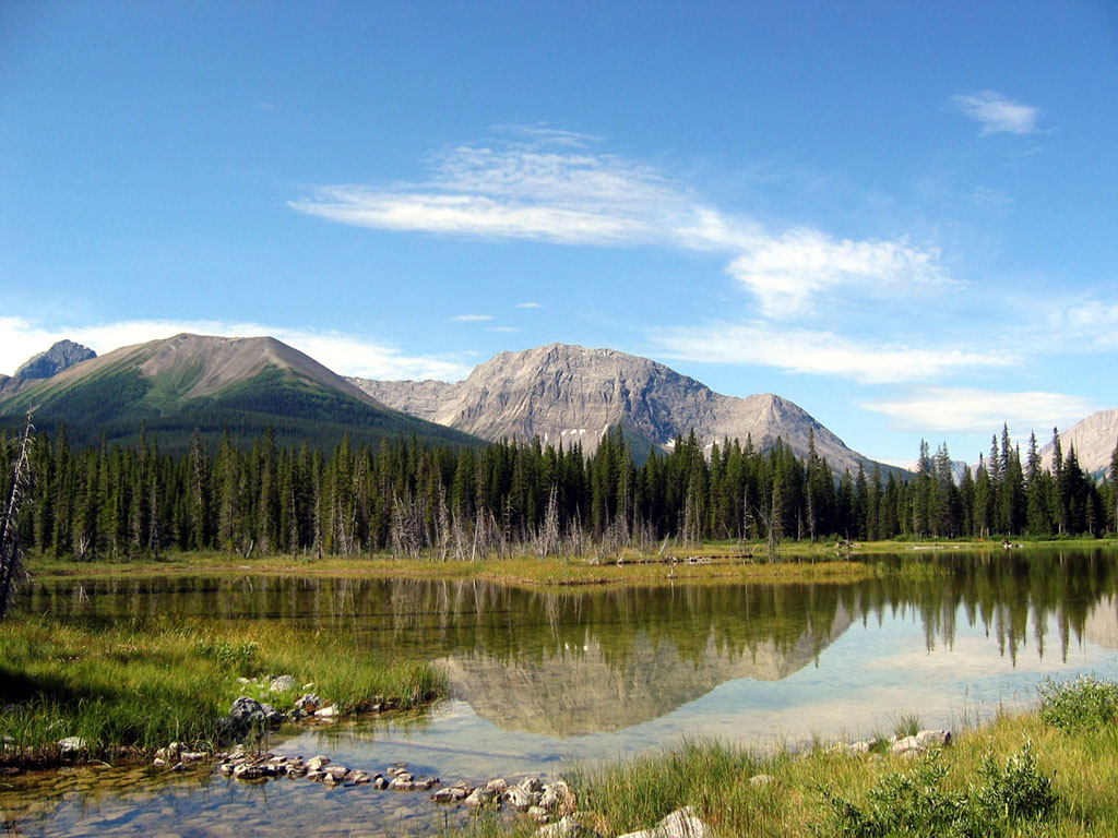 Pete Lougheed provincial park, Alberta, Canada